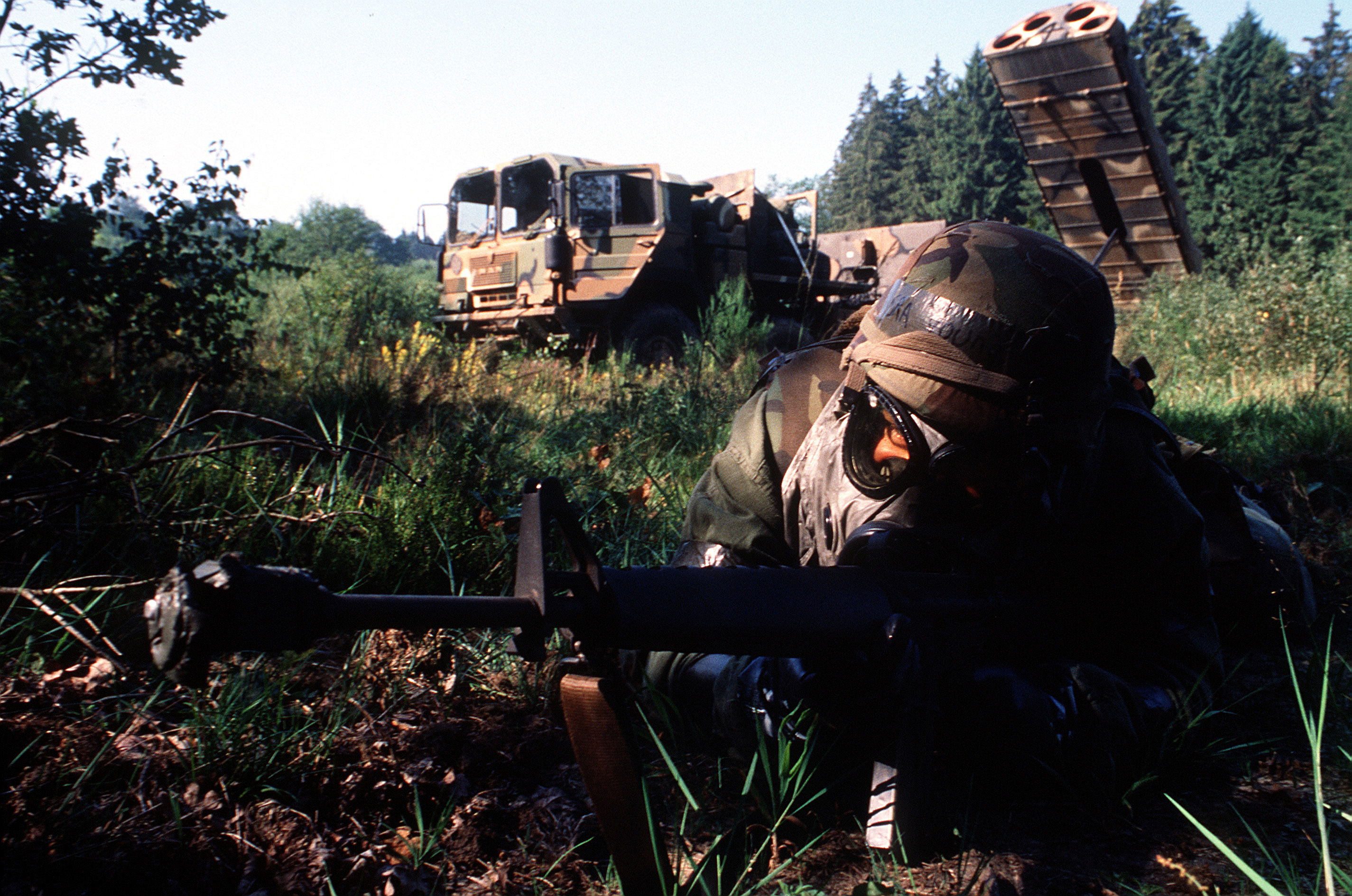 An airman wearing an M-17 gas mask maintains his security position as a transporter-erector-launcher (TEL) for the BGM-109G ground launched cruise missile stands in raised position as members of the 485th Tactical Missile Wing conduct a simulated launch. The TEL is pulled by an M-1014 German MAN tractor.